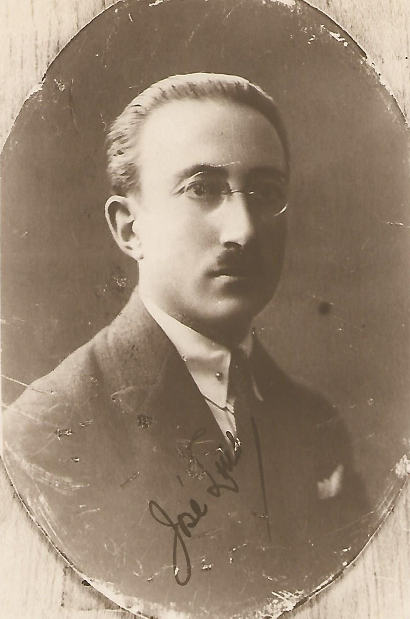 Jose Luis Bustamante Joven